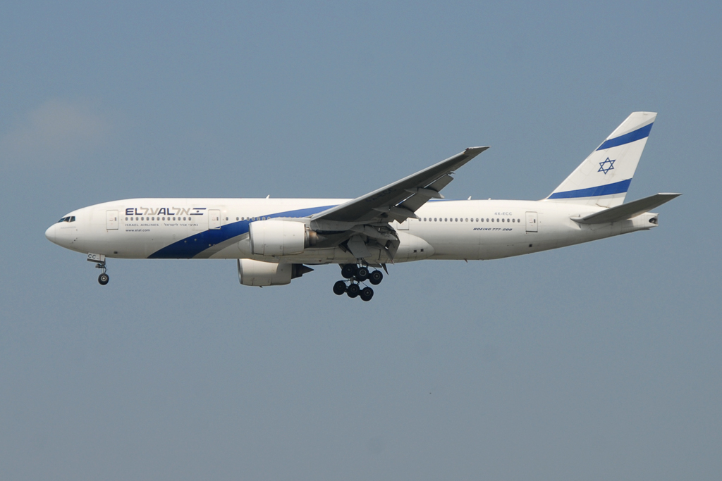 4X-ECC EL AL Boeing 777-258ER msn 30833/335 seen on short finals for 27L at London Heathrow (LHR/EGLL).